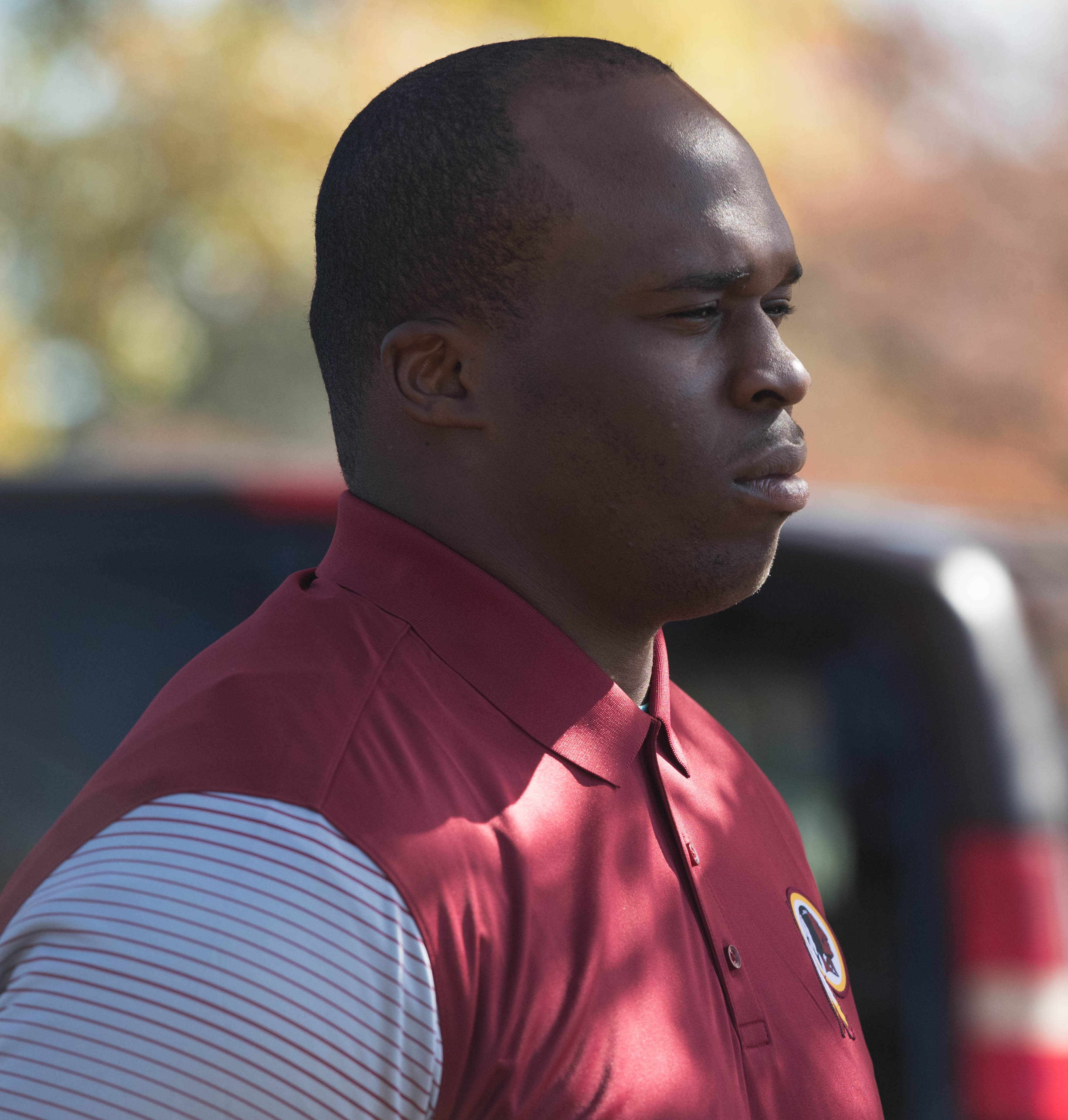 Washington Redskins guard, Arie Kouandjio, visiting Joint Base Myer-Henderson Hall, VA on November 8, 2016.